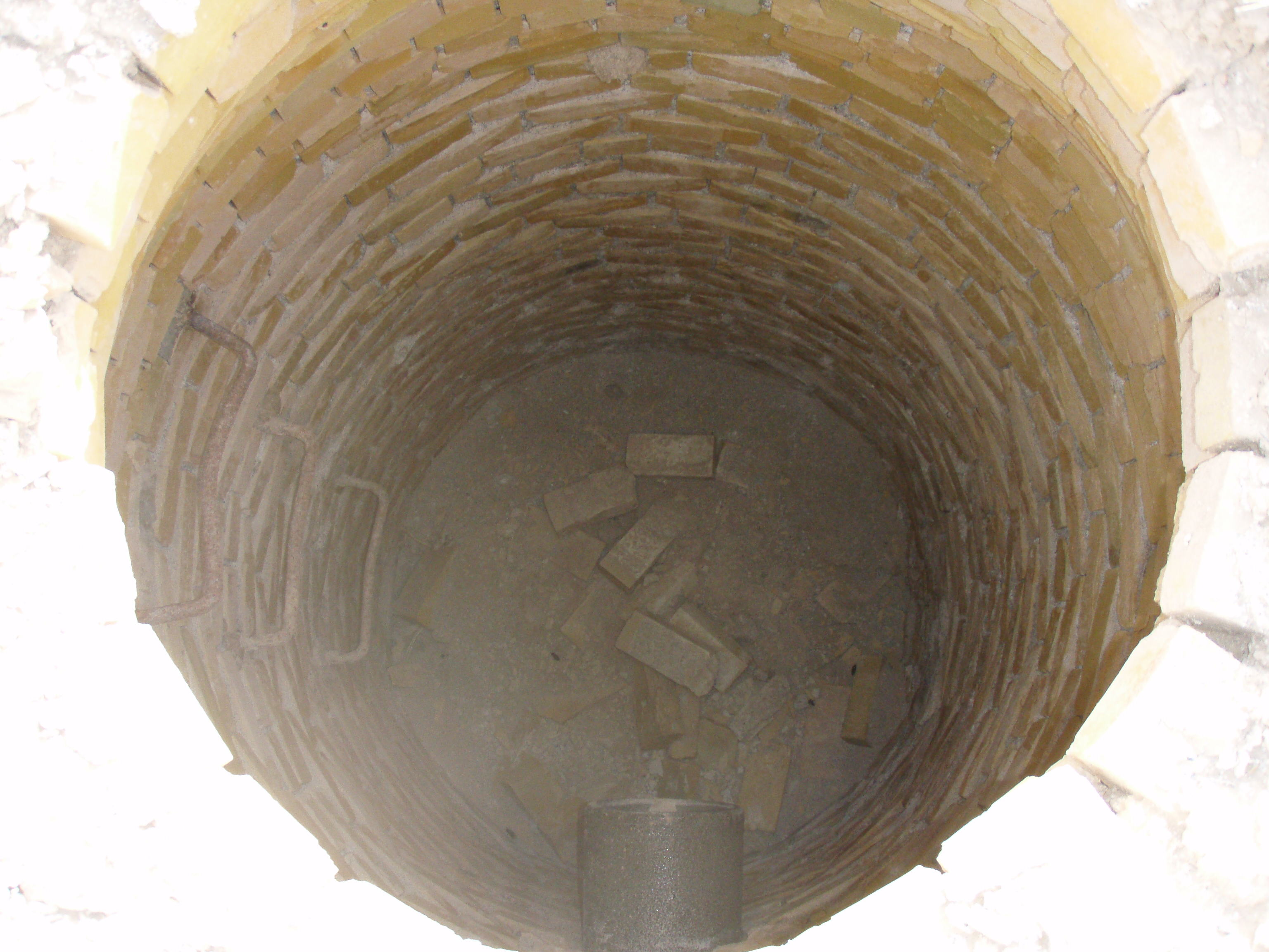 Hole into the sewer system at the Topaz Internment camp outside Delta, Utah